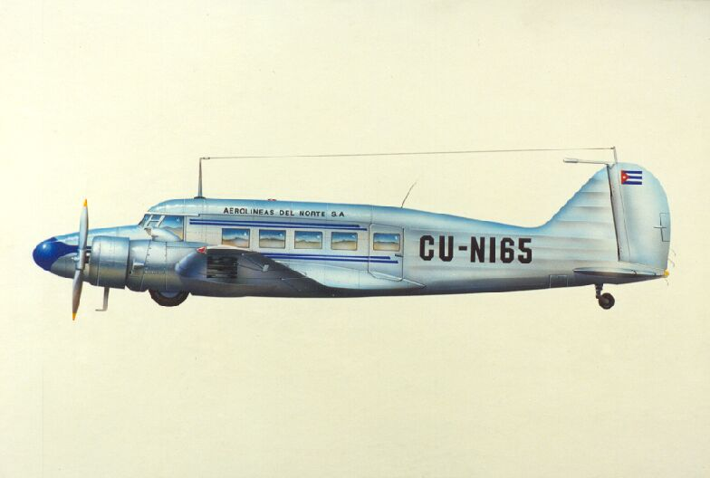 This image is from my family album, it was produced from a photo taken of one of my father's aircraft, Capt. Juan Benito Viera, in Cuba.